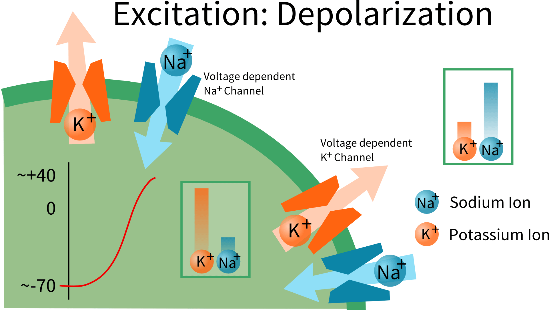 Nerve Cell Depolarization